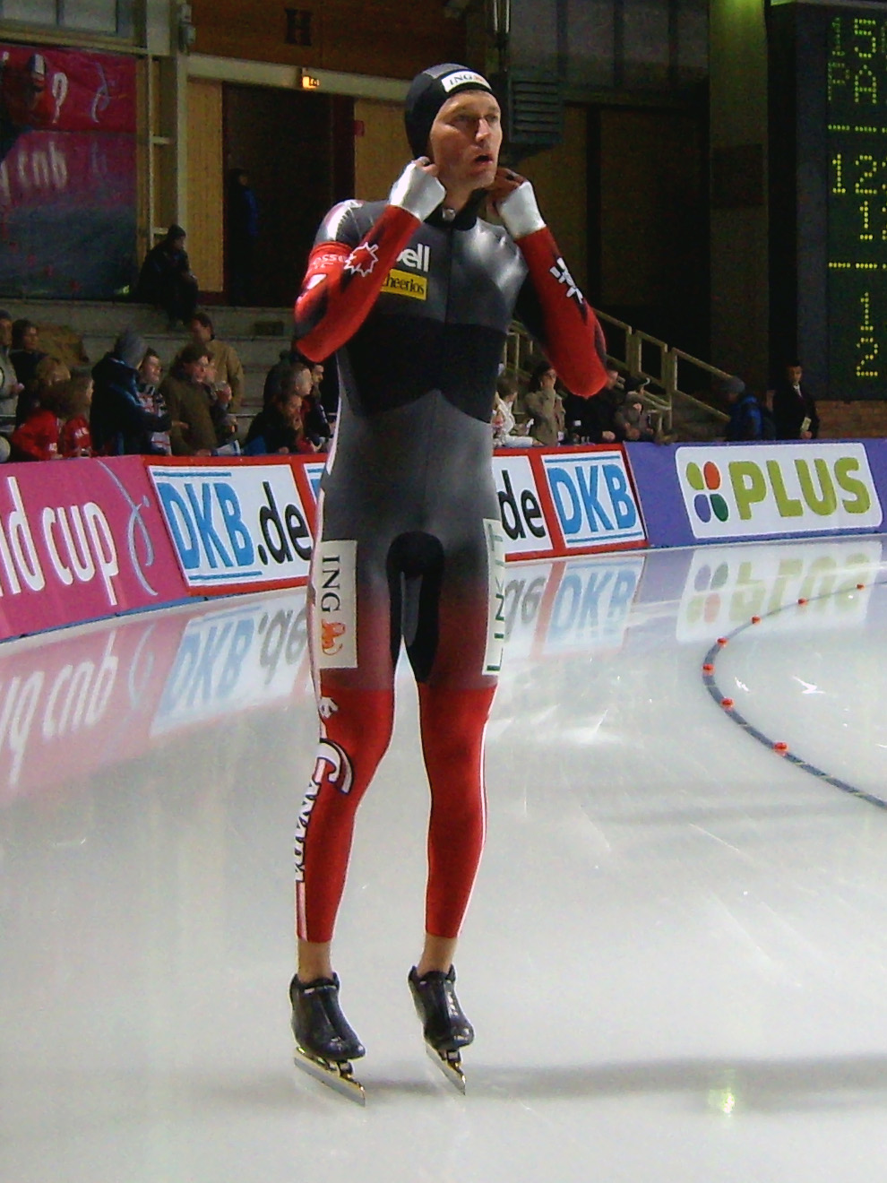 Steven Elm (CAN) befor 1500 meters world cup speedskating race in Berlin, Germany.